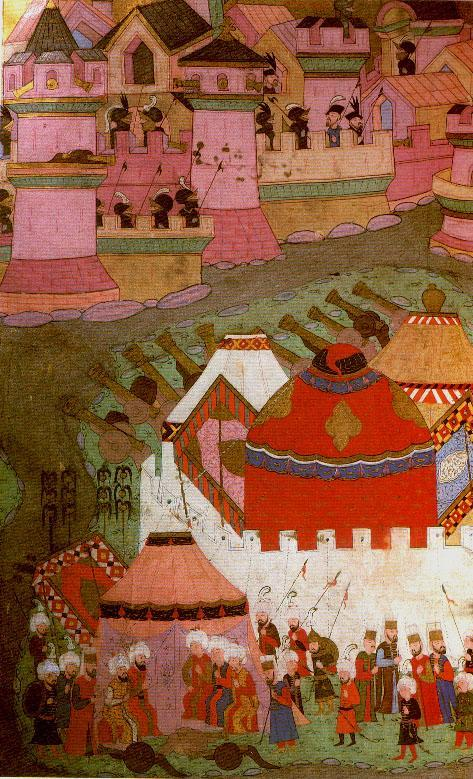 The Ottoman army besieging Vienna (1529).